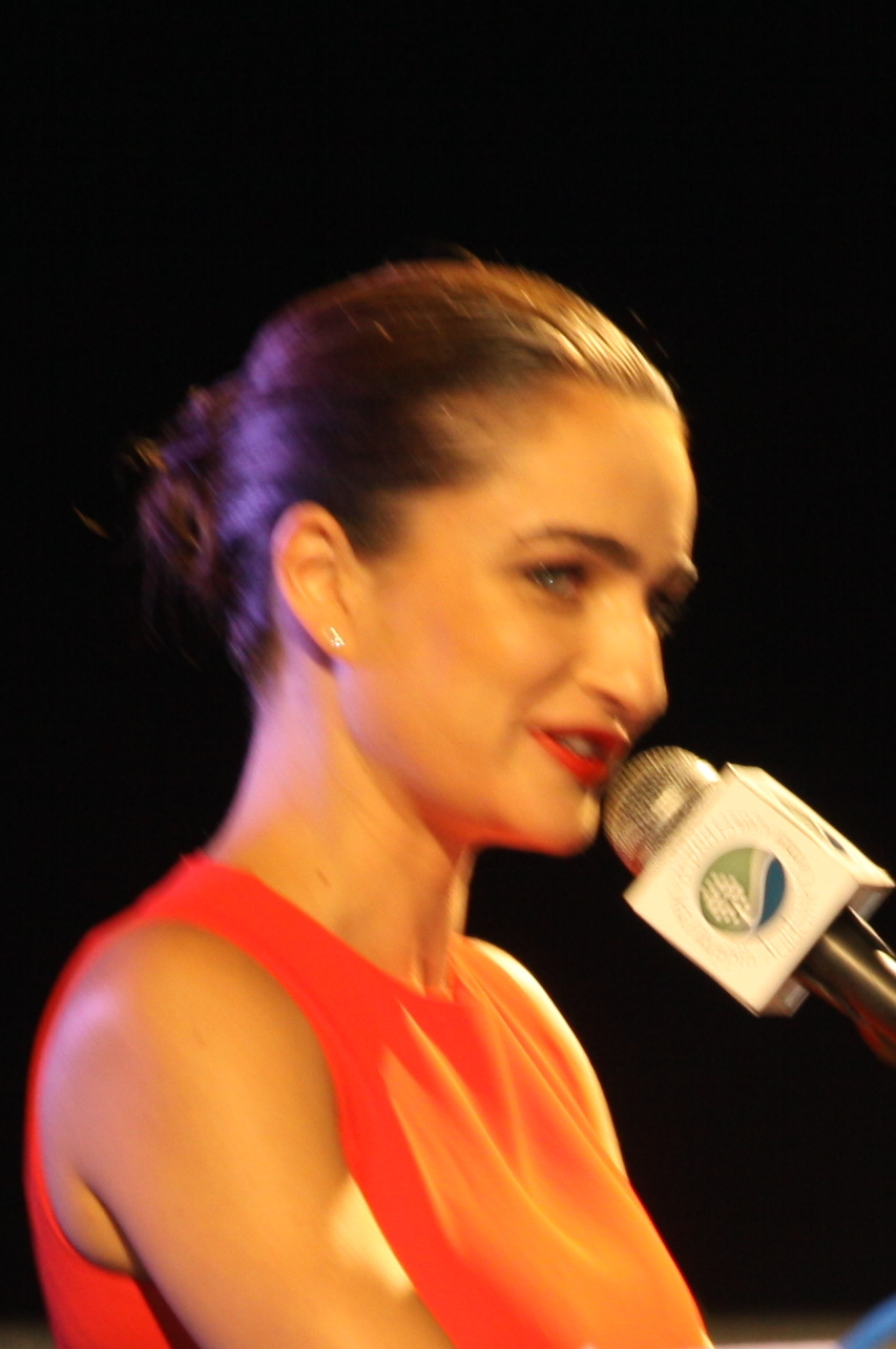 Ania Bukstein - host of Ruppin college graduation ceremony